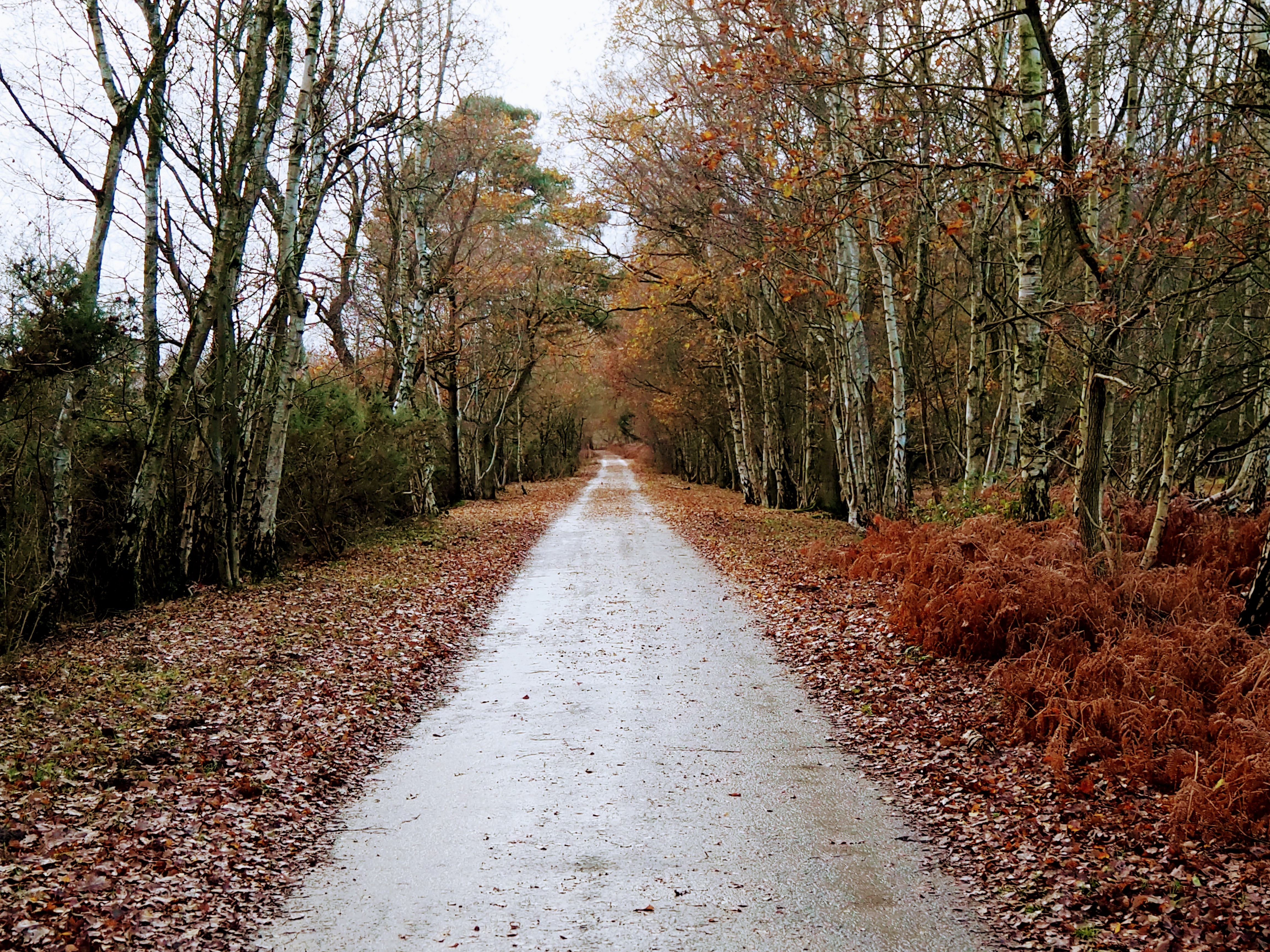 One of the main routes through Skipwith Common Nature Reserve, Skipwith, Yorkshire. The image looks towards the Riccall end of the common.